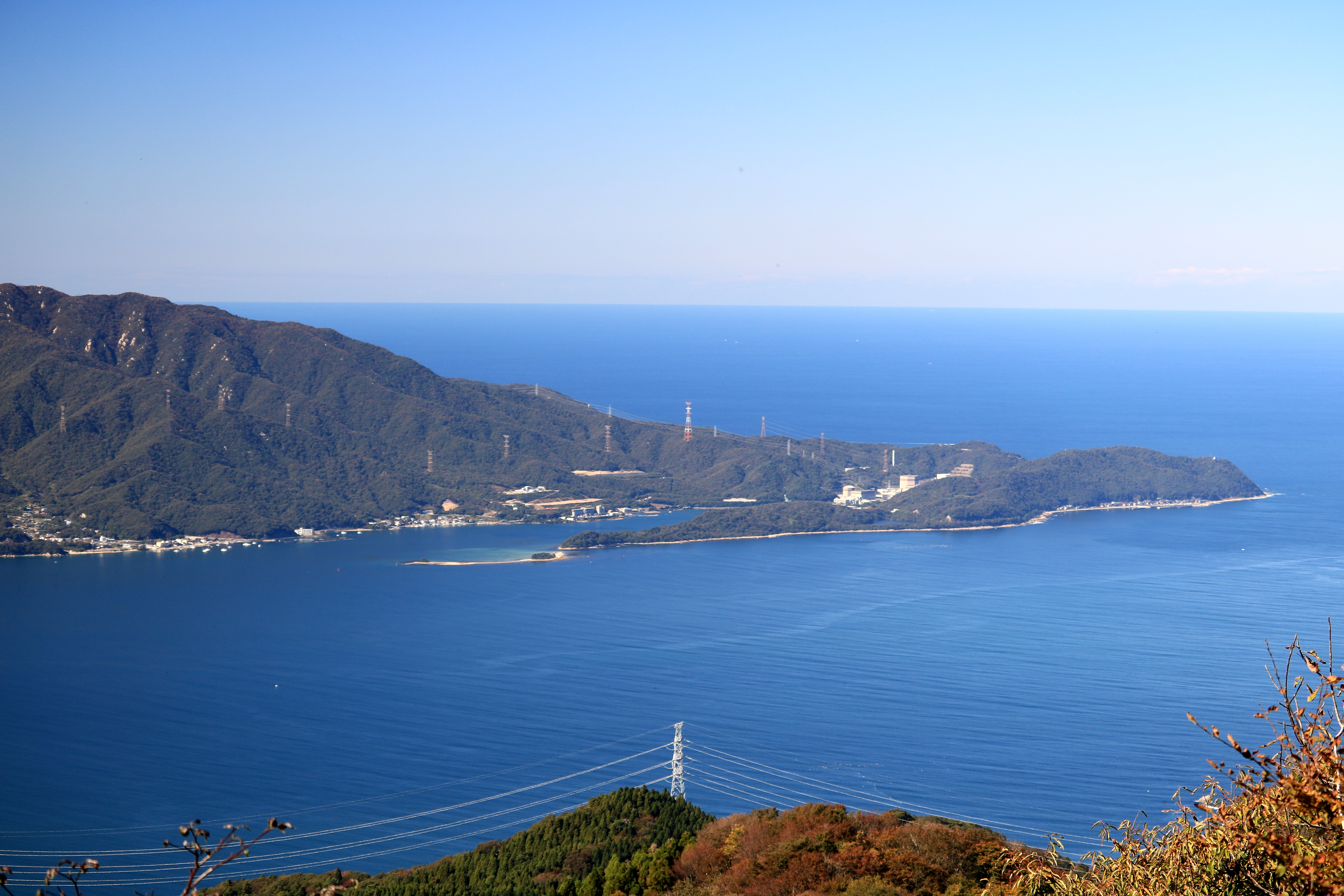 Urasoko Peninsula seen from Mount Hachibuse in Fukui prefecture, Japan.